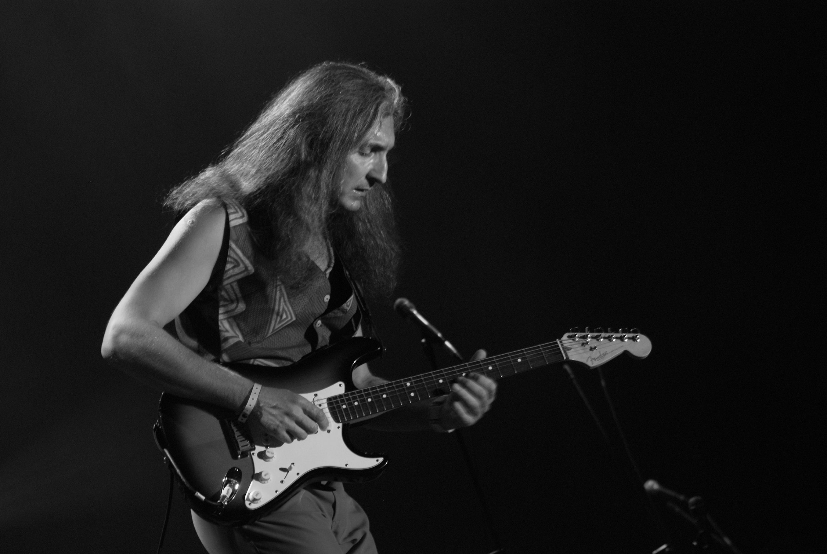 Wojciech Klich during 27. edycji Rawy Blues Festival